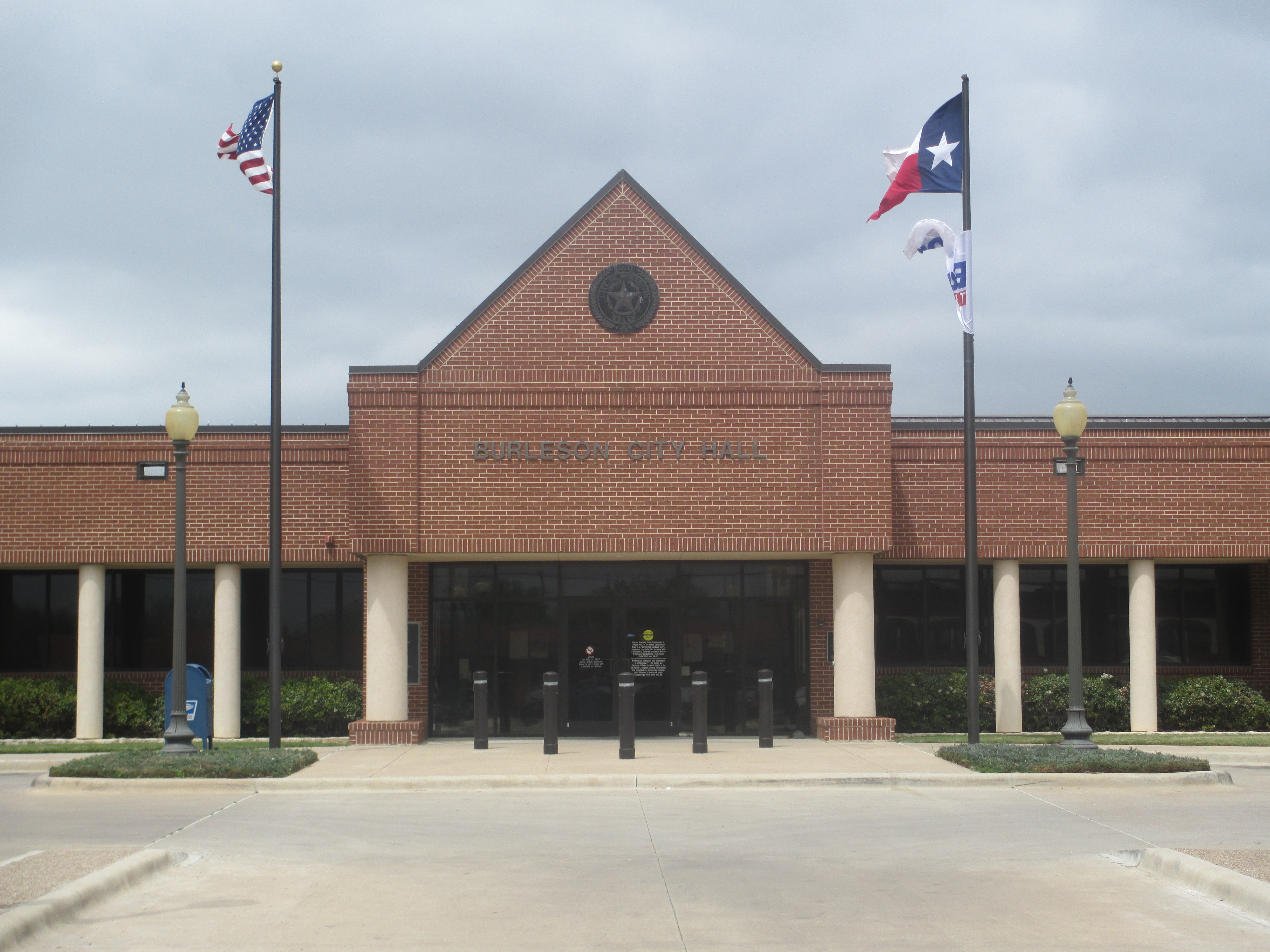 I took photo of Burleson, TX, City Hall, with Canon camera, April 7, 2013. Billy Hathorn (talk) 20:13, 9 April 2013 (UTC)